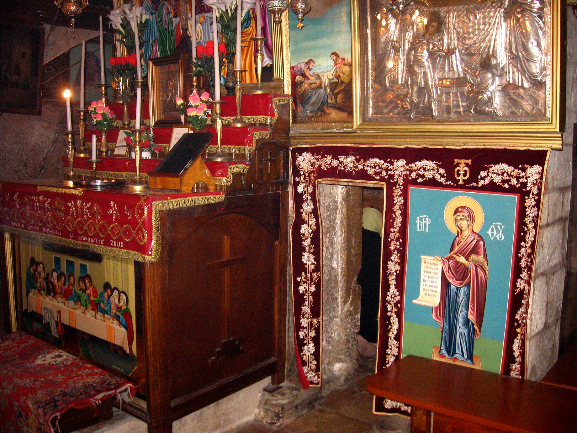 Virgin Mary's Tomb, Mount of Olives, Jerusalem. A pilgrim is seen praying inside the vault.